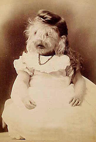 Alice E Doherty, The Minnesota Wooly Baby